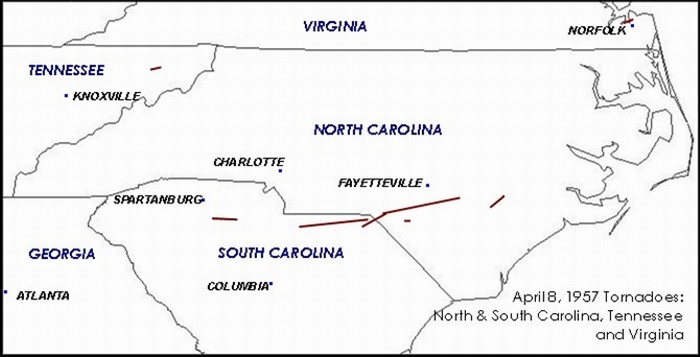 User created image, by me (David Alston), depicting tornado tracks in NC, SC, TN, and VA during the 1958 April 8 severe weather outbreak, sourced and plotted using NCDC and NOAA weather records, which are in public domain, and available at their sites. I release this image into public domain.